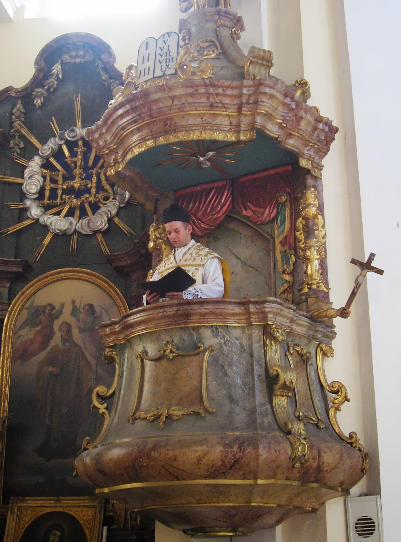 Traditional homily